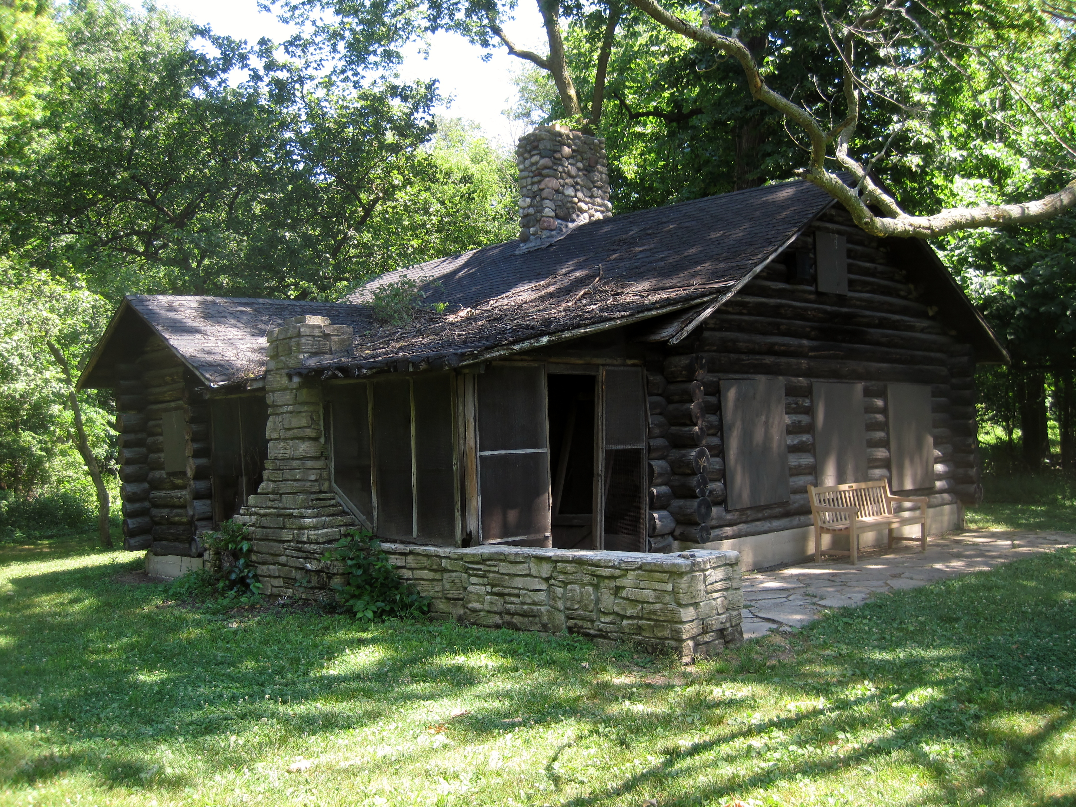 The Edward L. Ryerson Cabin in the Edward L. Ryerson Area Historic District in Deerfield (c. 1927). Ryerson was president of the Ryerson Steel Company. Inspired by a visit to the cabin of his friend Cecil Barnes, Ryerson built his own cabin on a 28 acre tract he purchased on the Des Plaines River. The idea of owning a cabin became popular in the 1930s, probably due to the works by the Civilian Conservation Corps and the ideal that a log cabin can survive the best and worst of times. In the 1940s, Arthur Compton used the cabin as a refuge from his work on the Manhattan Project at the University of Chicago.